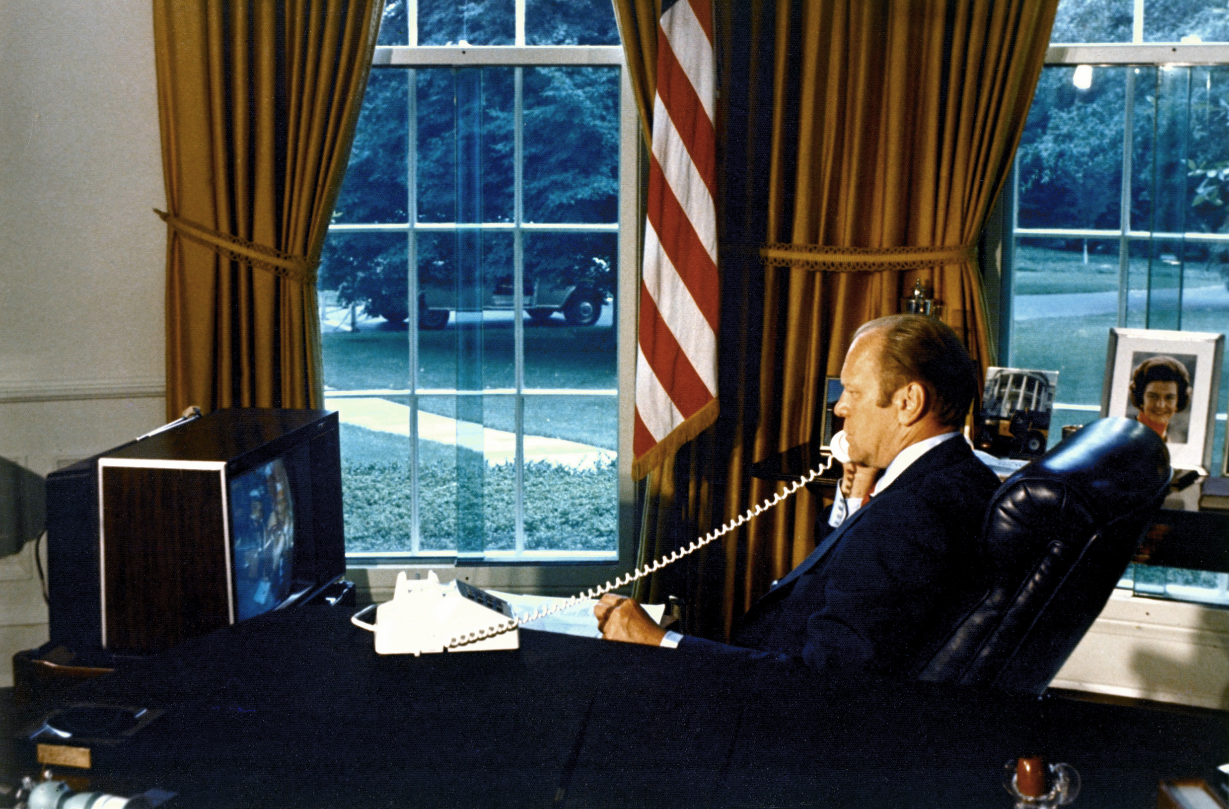 President Gerald R. Ford watches ASTP crewmen Thomas P. Stafford, Donald K. Slayton and Valeriy N. Kubasov on television as he talks to them via radio-telephone while they orbited the Earth on July 18, 1975. The American Apollo spacecraft and Soviet Soyuz spacecraft were docked.